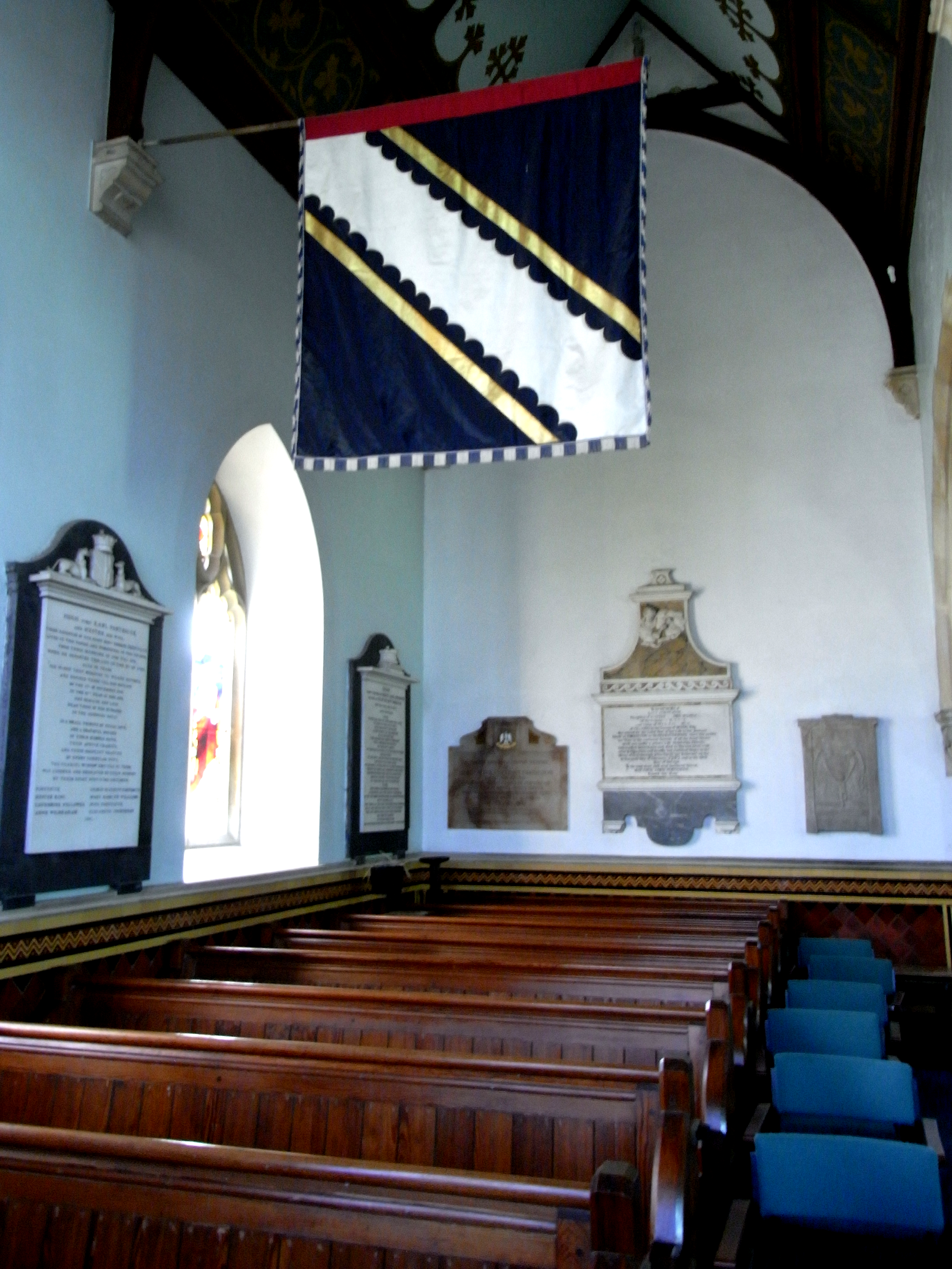 Fortescue banner of arms in the Fortescue Chapel of St Paul's Church, Filleigh, Devon. The Fortescue family (Earls Fortescue) were lords of the manor of Filleigh, in which parish is situated their former seat, Castle Hill. The last Fortescue to own Castle Hill was Lady Margaret Fortescue (1923-2013), eldest daughter and co-heiress of Hugh Fortescue, 5th Earl Fortescue (1888-1958), although now owned by her daughter Eleanor, Countess of Arran (née van Cutsem) who lives there with her husband Arthur Gore, 9th Earl of Arran.